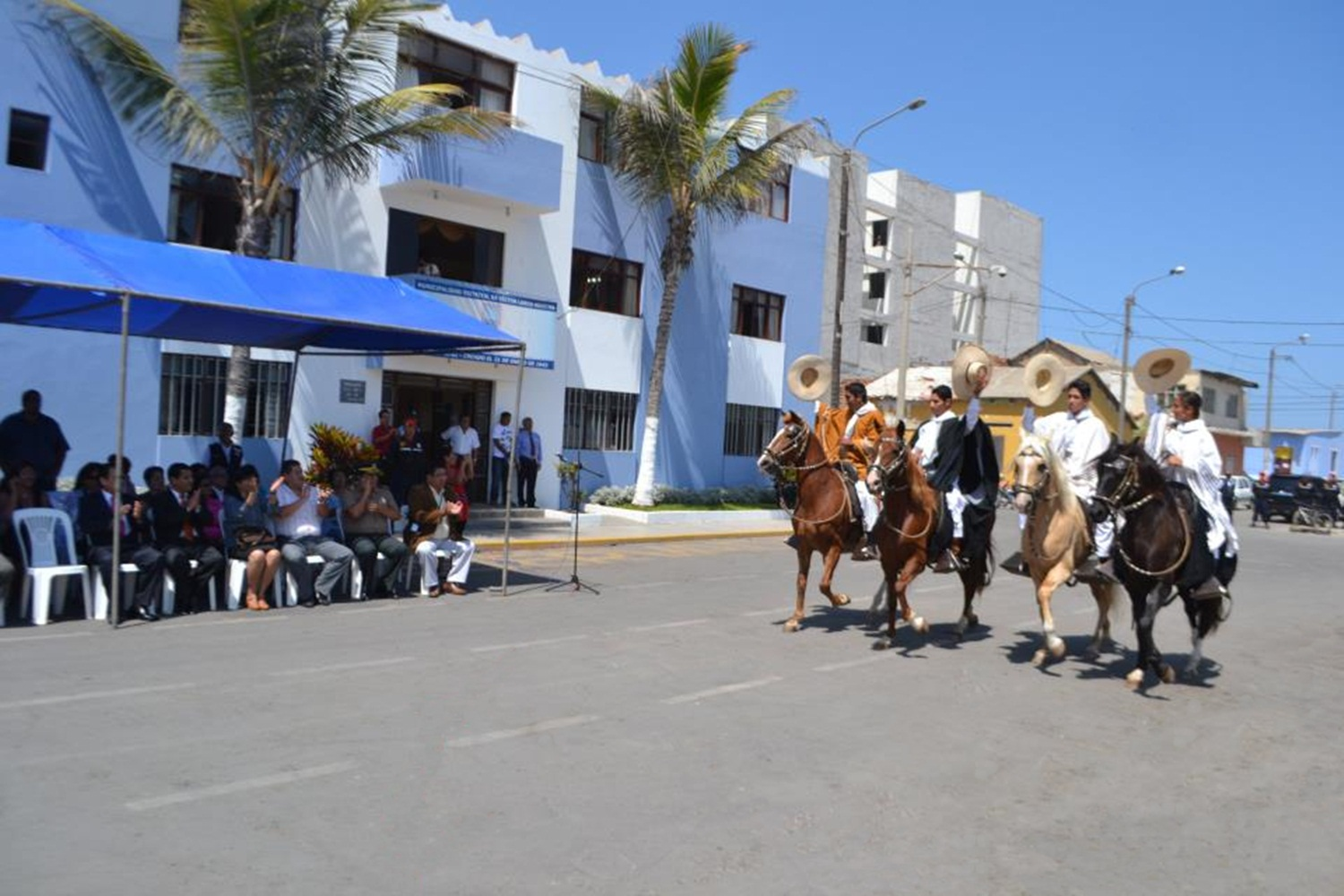 Caballos de Paso y Chalanes Trujillanos